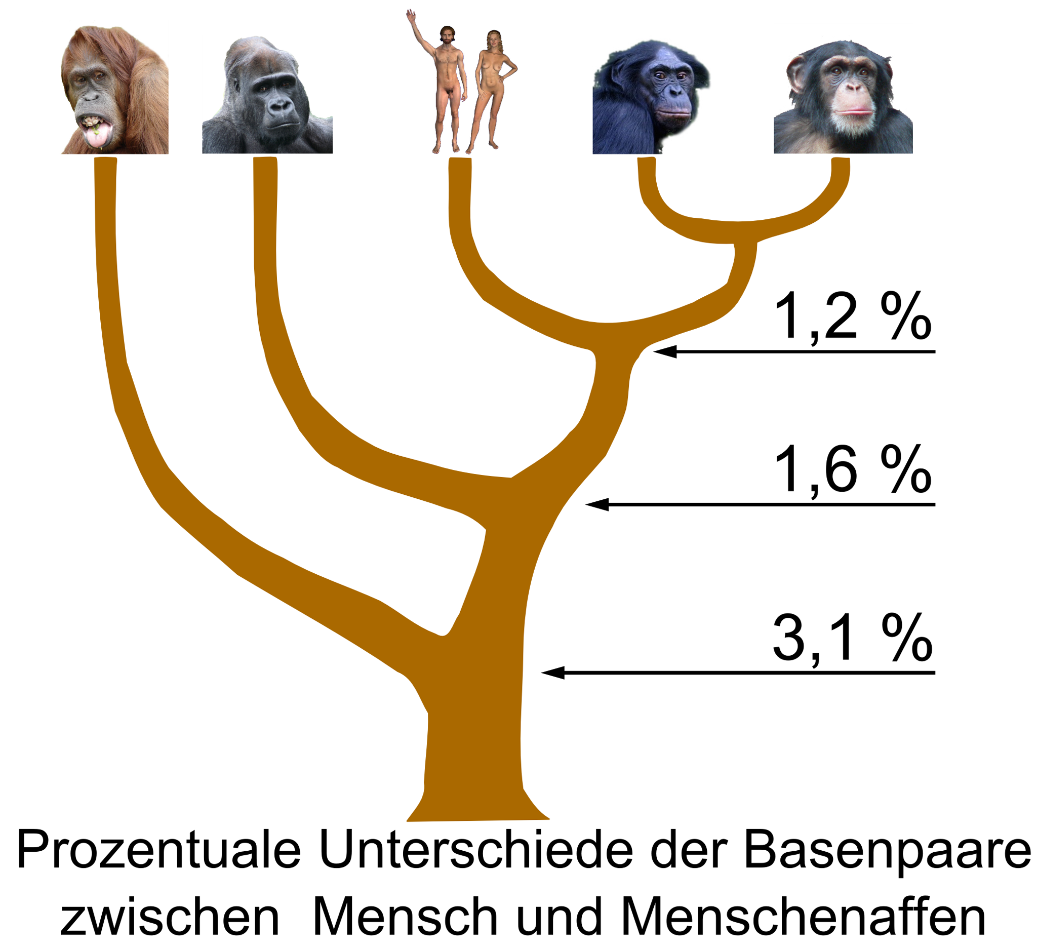 Difference in DNA base pairs between Homo sapiens and other Hominidae.